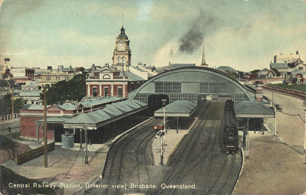 View of the platforms of the Central Railway Station, Brisbane, ca. 1911. Steam passenger train at the platform, right hand side. Clocktower on Ann Street, part of the station's facade was designed by the former Colonial Architect, J J Clark.